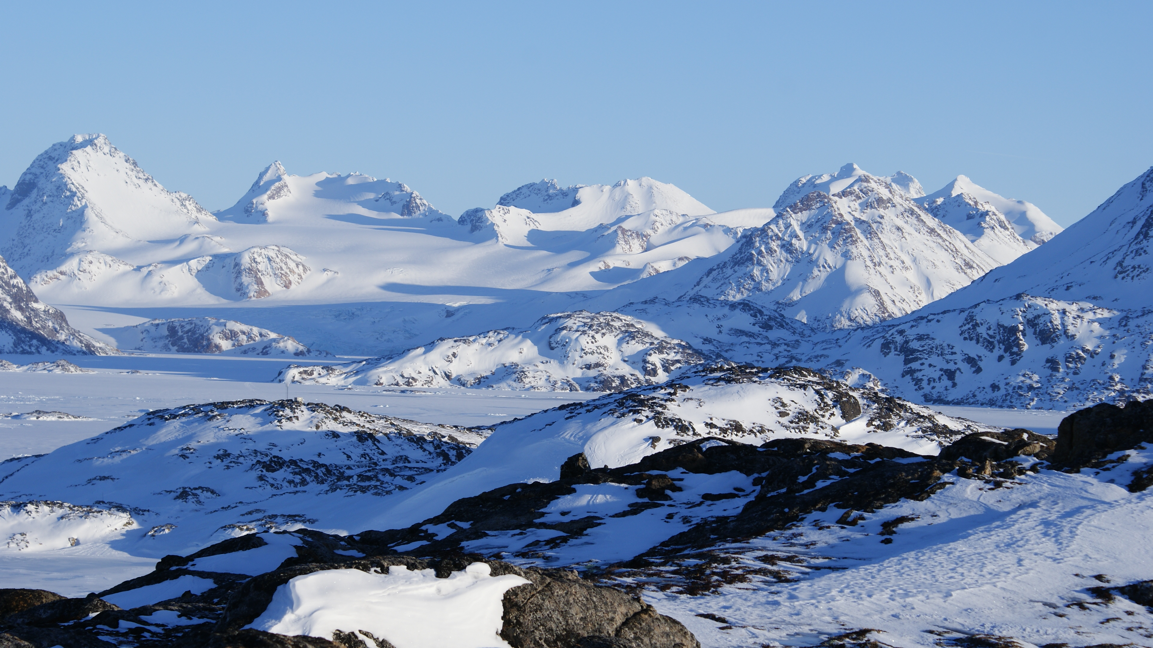 Apusiaajik Island, Greenland. Apusiaajik Glacier photographed from the vidda on Kulusuk Island.